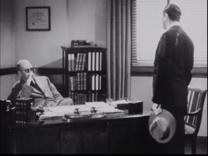 Screen shot from OSS training film, uploaded to Commons at